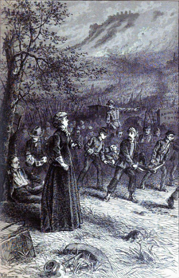 Scene at the Battle of Maryland Heights. The retreat. by Mary Clemmer Ames